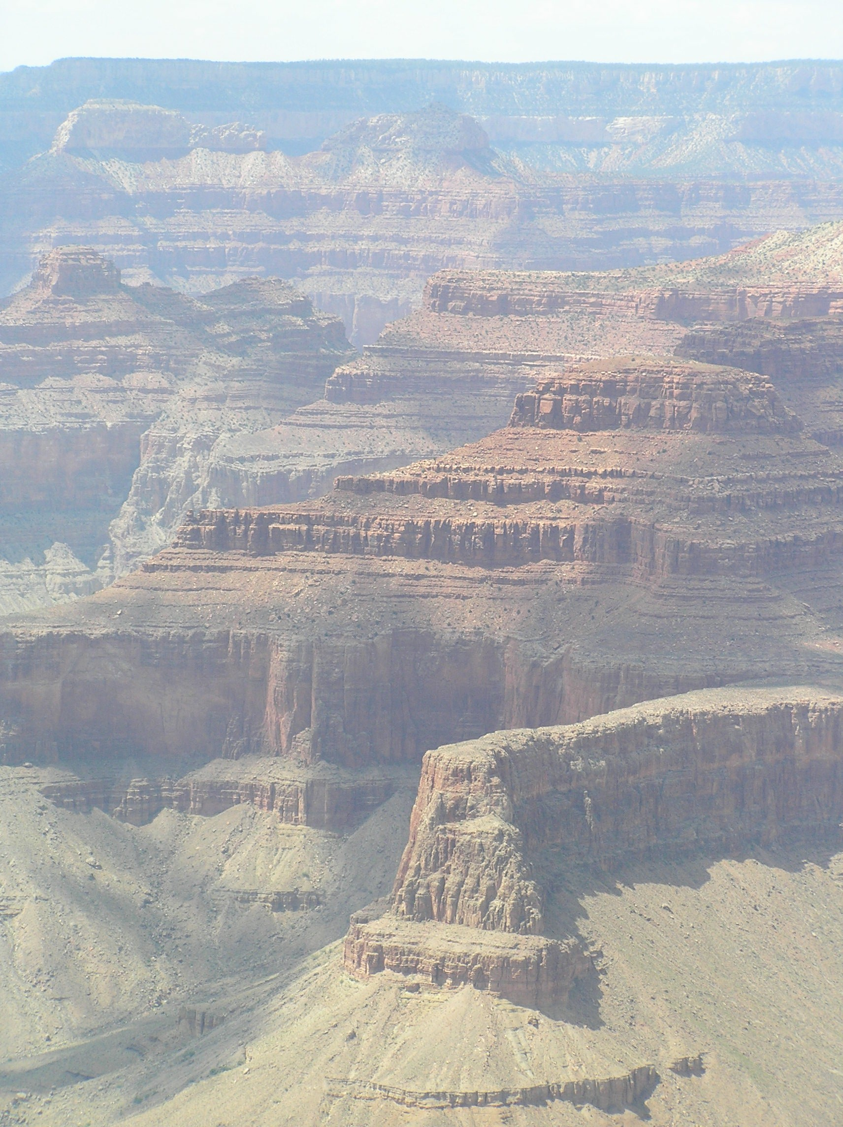 Grand Canyon, Arizona. Tower of Set, and behind (right), foot of Horus Temple prominence. Point Sublime on horizona, with Kaibab Limestone, Toroweap Formation, and bottom cliff-former of Coconino Sandstone. The bottom of Tower of Set is Redwall Limestone, above Muav Limestone, above Bright Angel Shale. The top of Tower of Set is a resistant platform of Esplanade Sandstone, the uppermost erosion-resistant layer of the Supai Group; (erosion debris/gravels of Hermit Shale are probably on top of it).